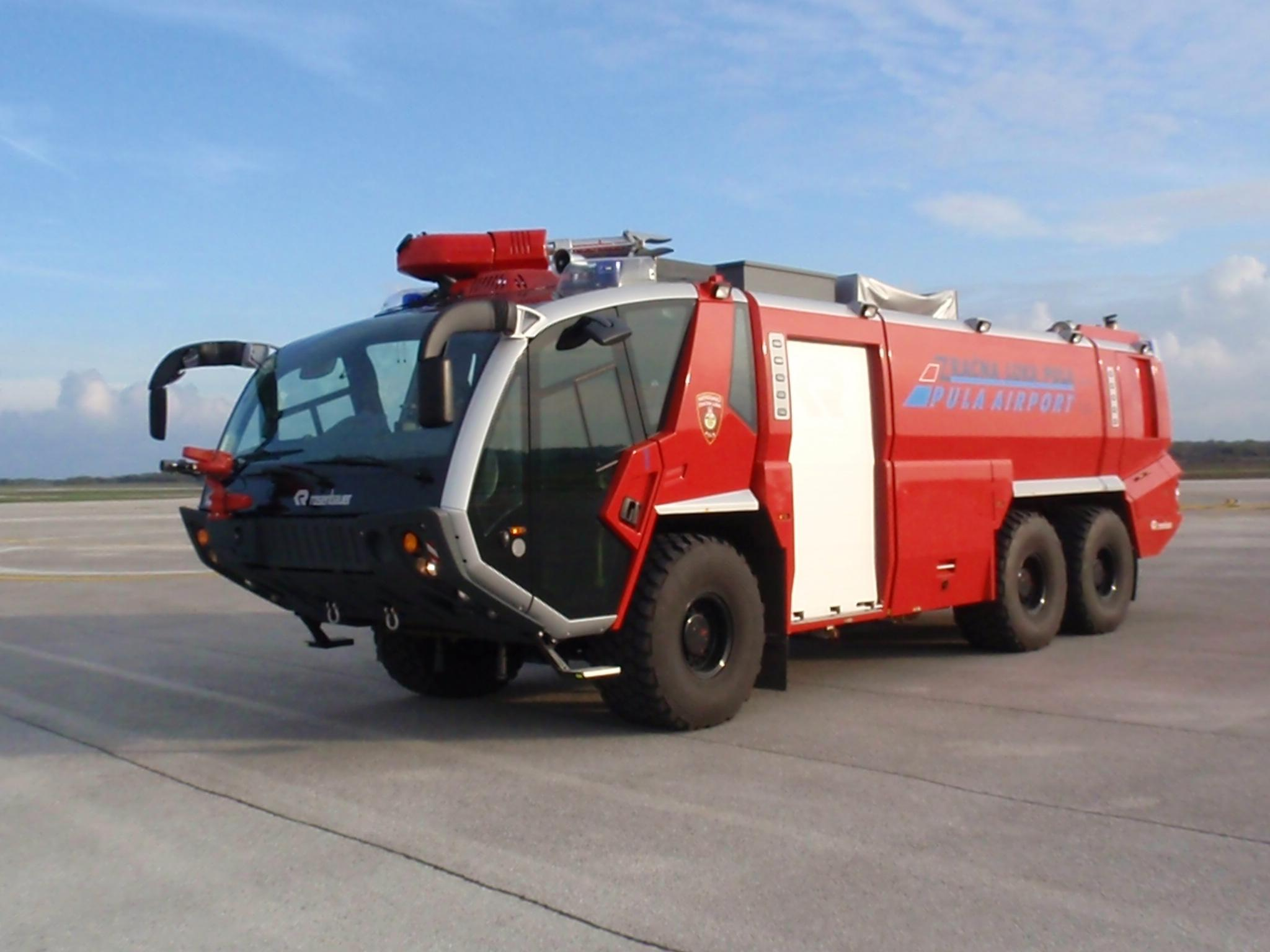 Firenfighting vehicle Rosenbauer Panther on Pula airport, Croatia